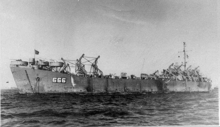 USS LST-666 anchored off San Pedro, CA. after 21 months at sea., 10 February 1946